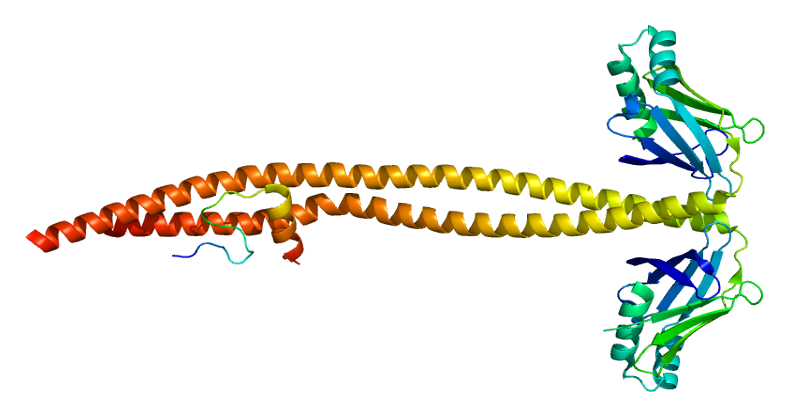 Structure of the LIG4 protein. Based on PyMOL rendering of PDB 1ik9.